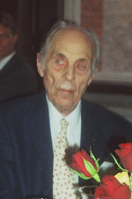 Jöran Mjöberg (1913-2006), Swedish professor of literature at Lund University.Photo taken at the 85th anniversary of the student magazine Lundagård for which Fiskesjö was editor in 1936-37.